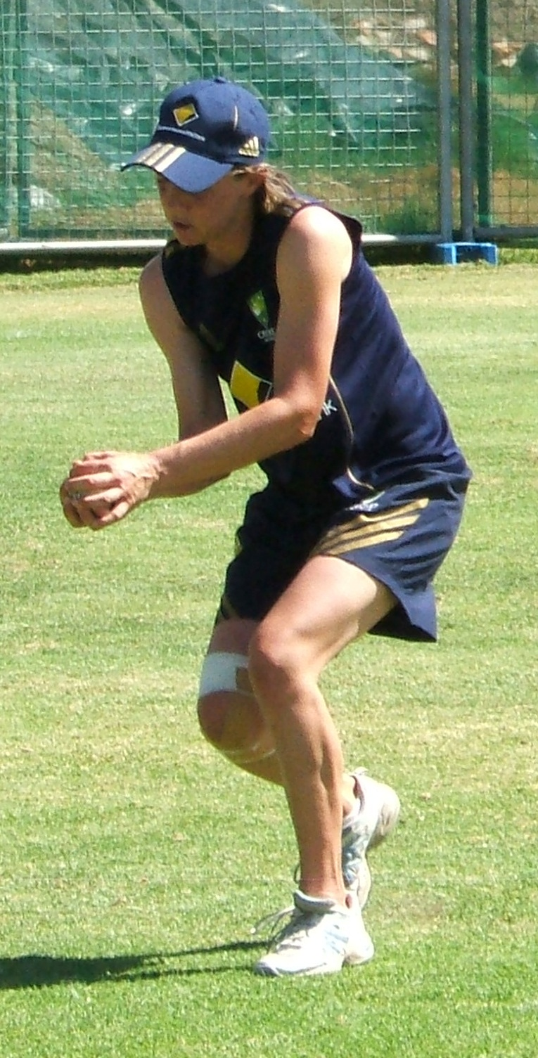 Named person engaging in named action at Adelaide Oval nets/training ground